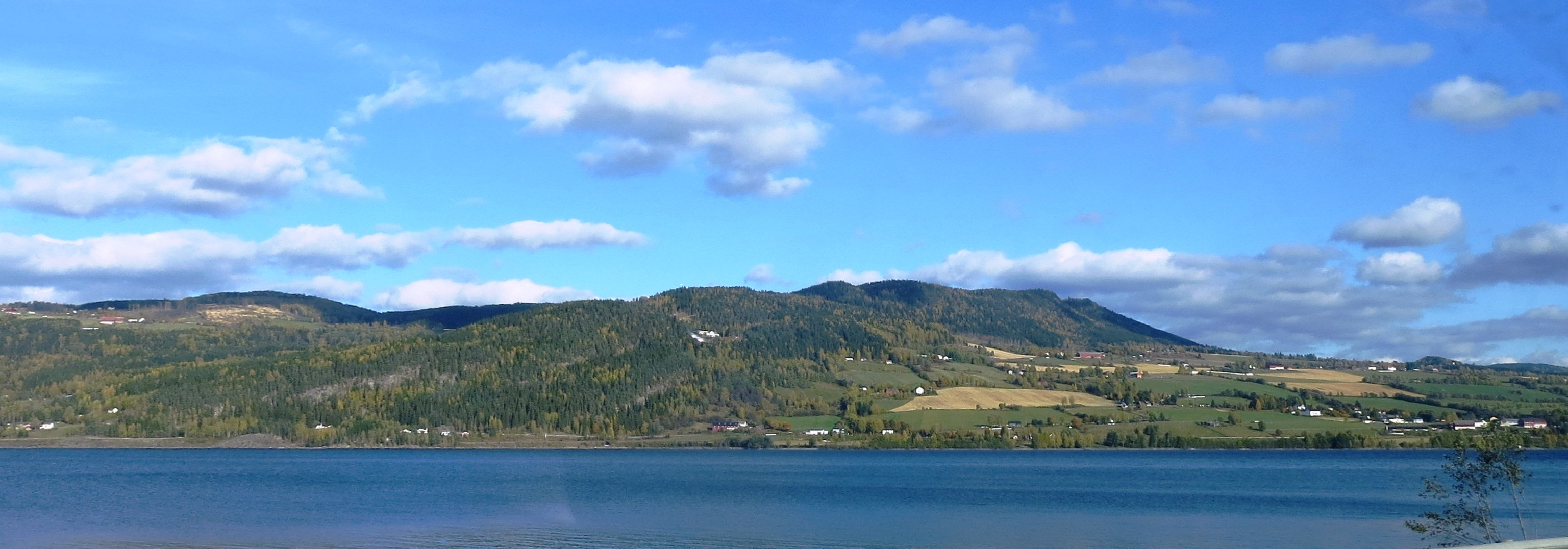 Image of the western part of Ringsaker municipality, at lake Mjøsa, seen from the western bank of the lake. Opland, Norway